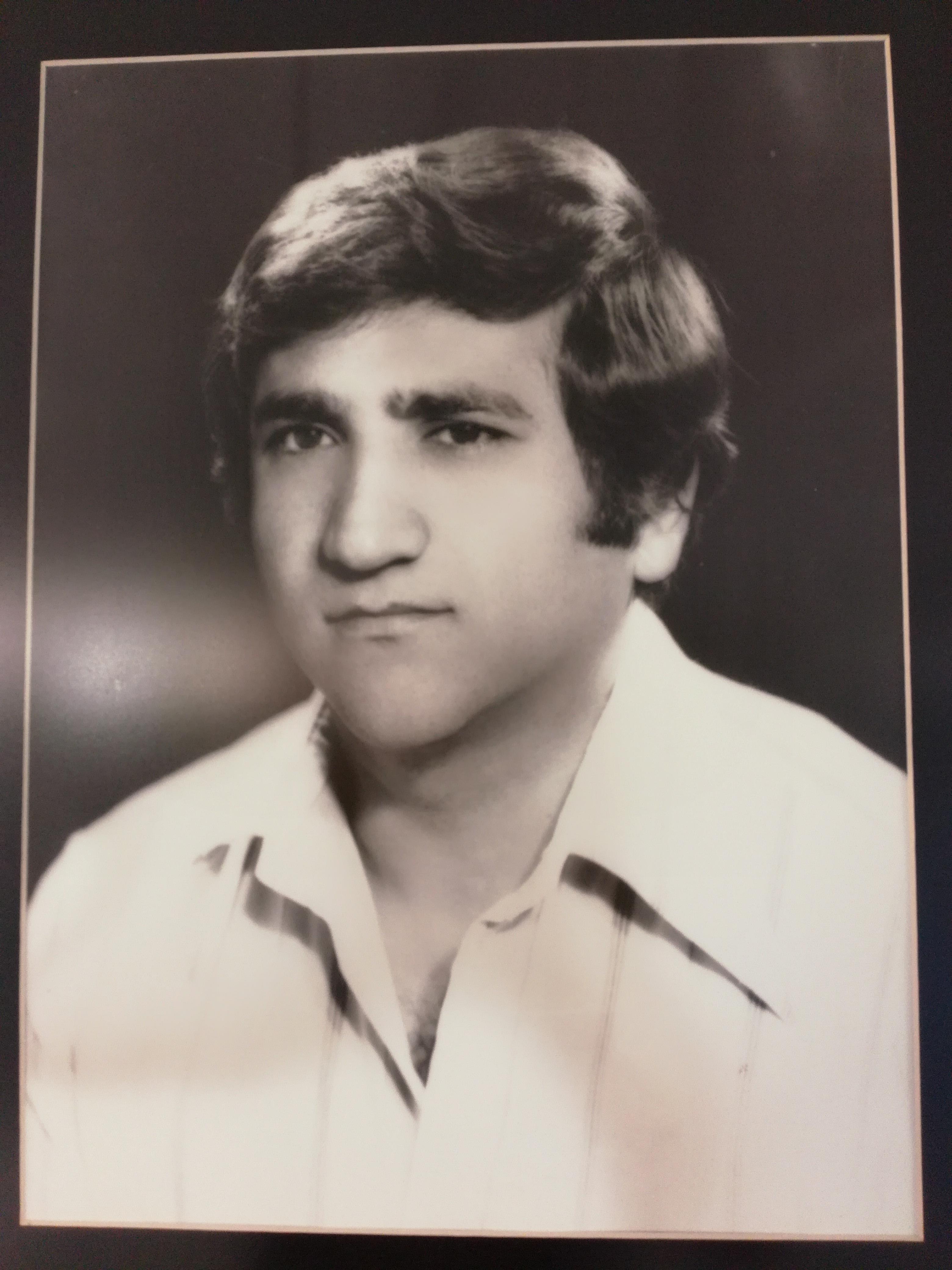 Hasan Peşmen